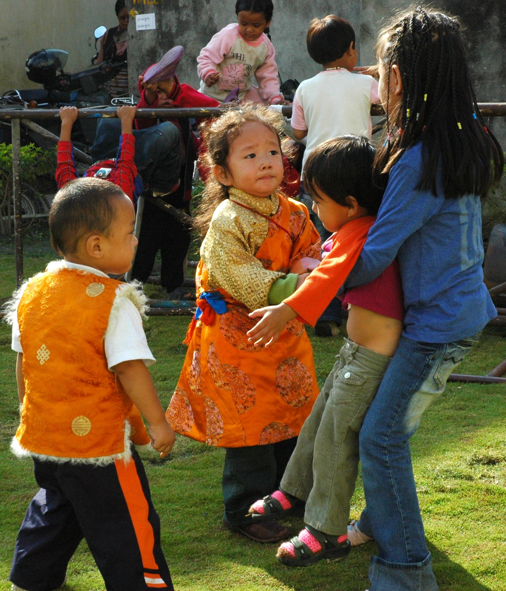 Tibetan boy dressed in a orange chuba playing with friends, Tharlam Monastery of Tibetan Buddhism courtyard, Bodha, Kathmandu, Nepal